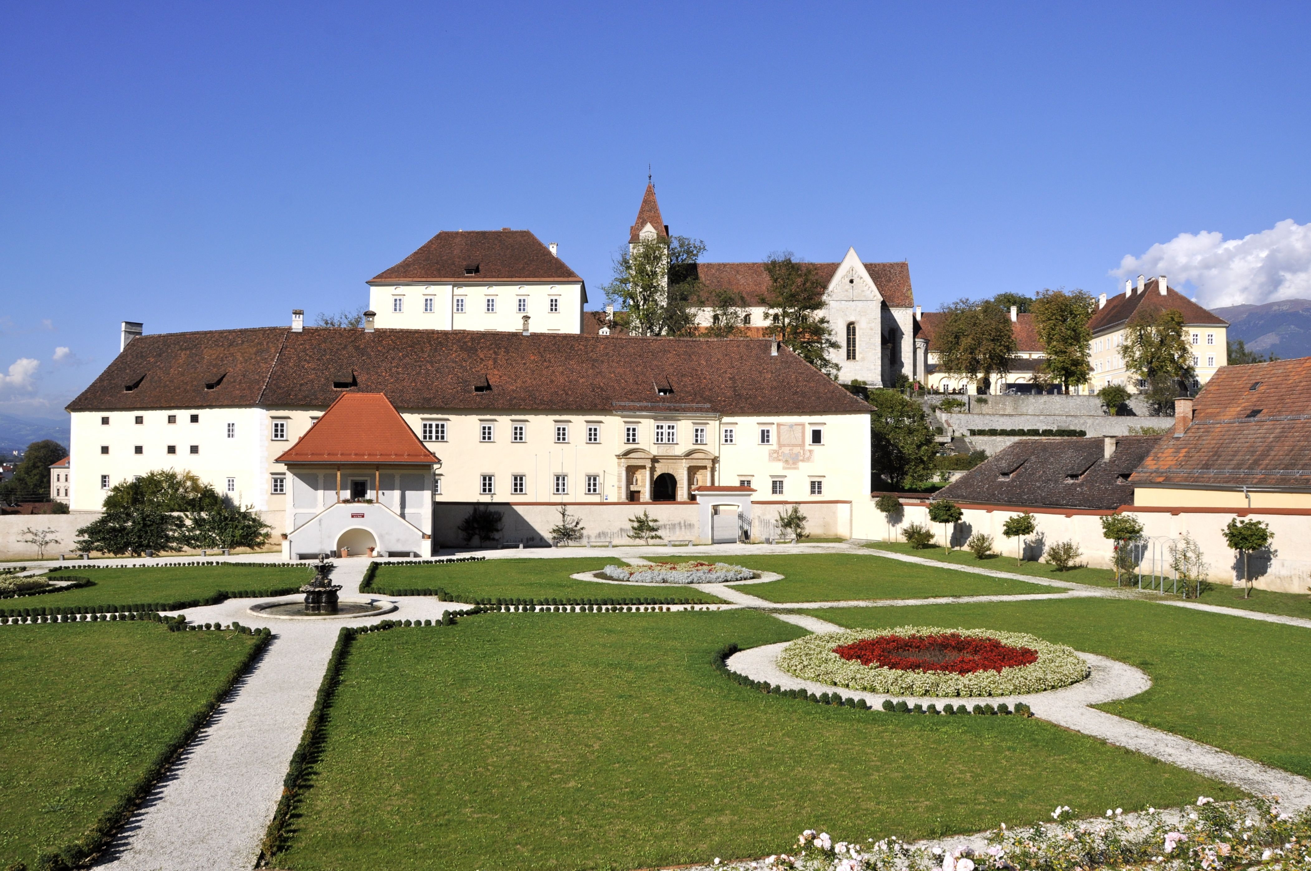 South view at the monastery Sankt Paul, market town Sankt Paul im Lavanttal, district Wolfsberg, Carinthia, Austria, EU